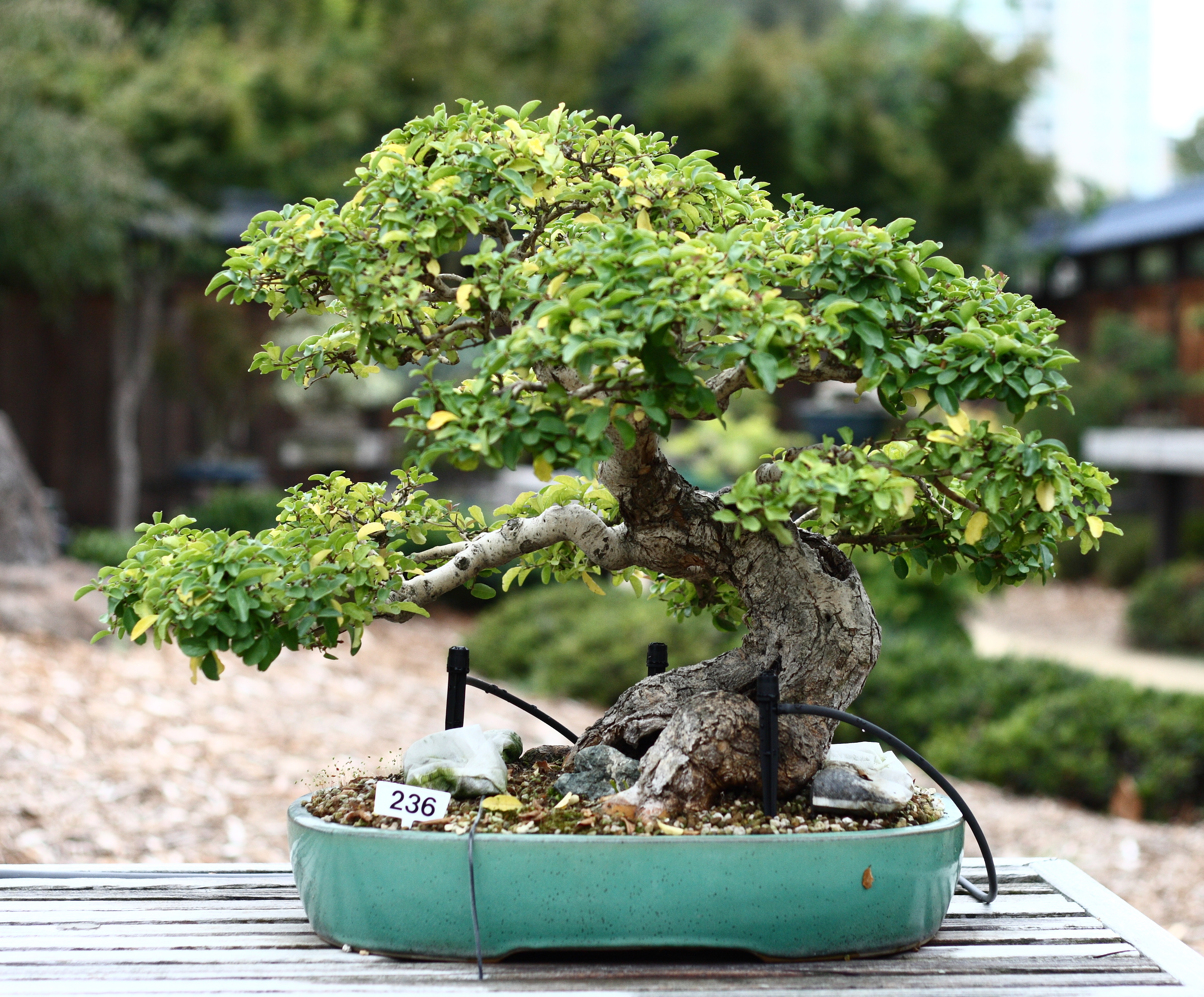 A Japanese Privet (Ligustrum japonicum) bonsai, tree #236 in the Golden State Bonsai Federation Collection North, located at Lakeside Park in Oakland, California. According to the GSBF Collection North website, this tree was donated by Judith Mathis, who acquired it at the 1992 GSBF convention, when it was donated to the convention by John Naka.